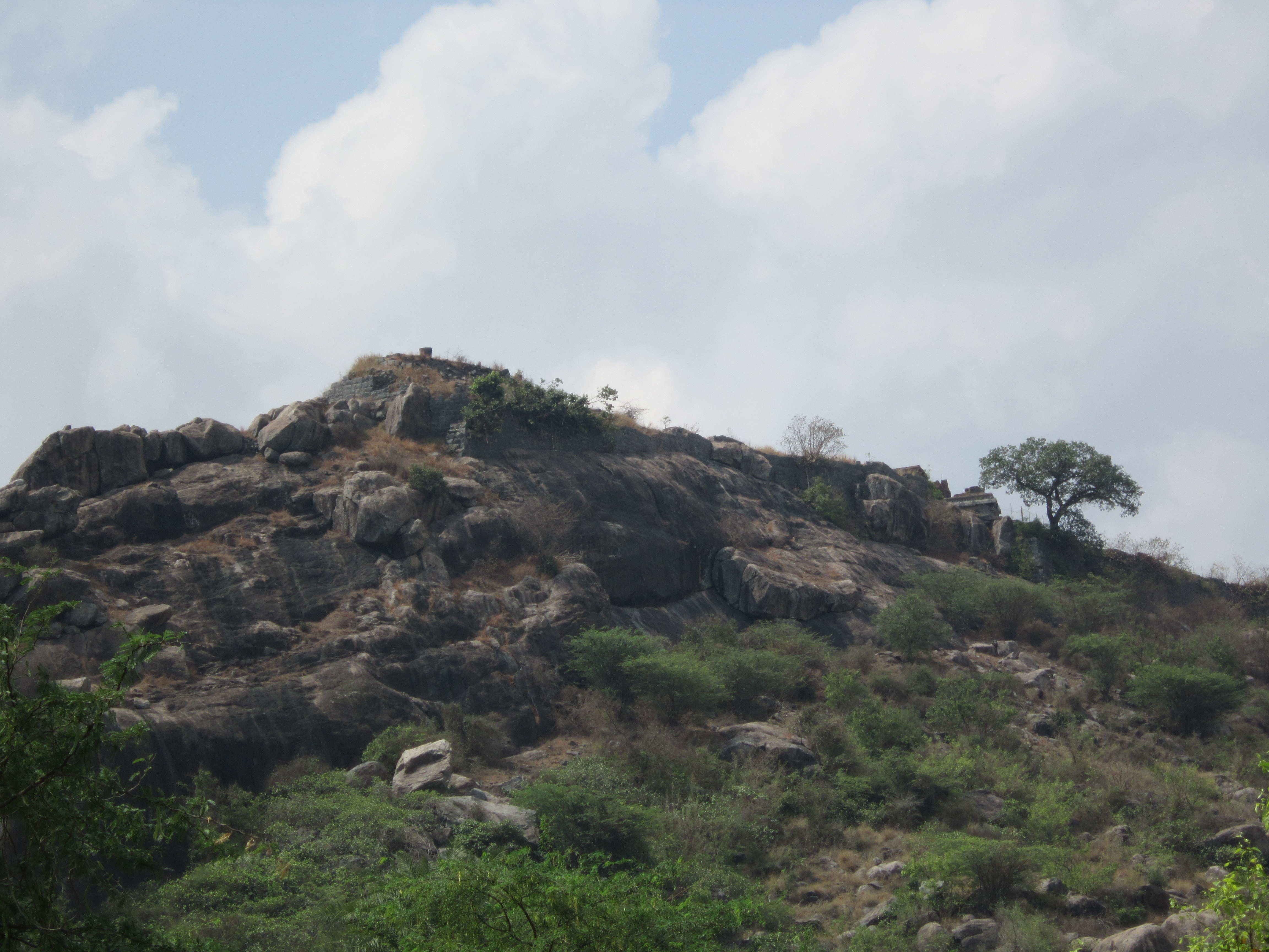 for wikipedia